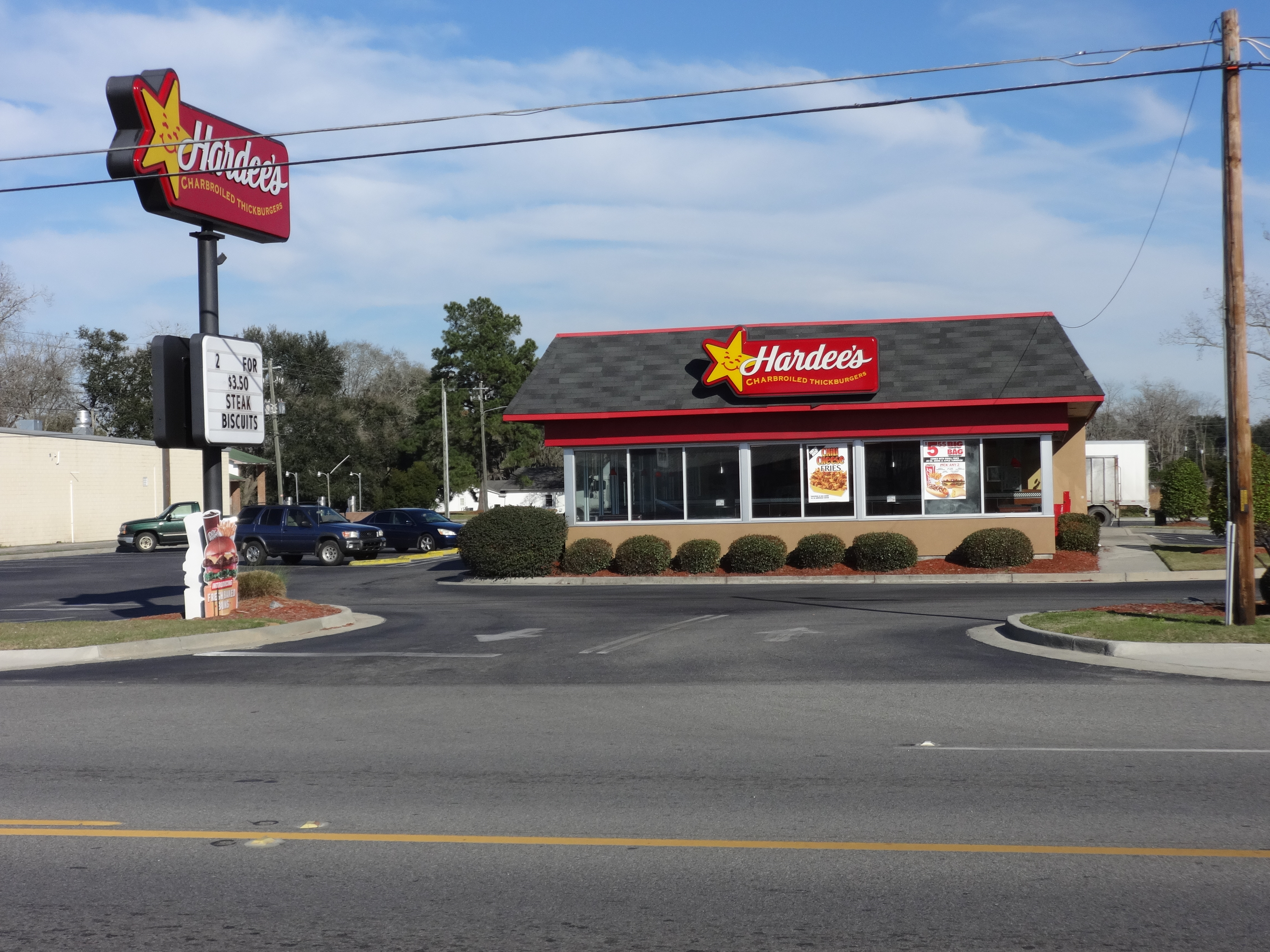 Hardee's, Lakeland, Lanier County, Georgia